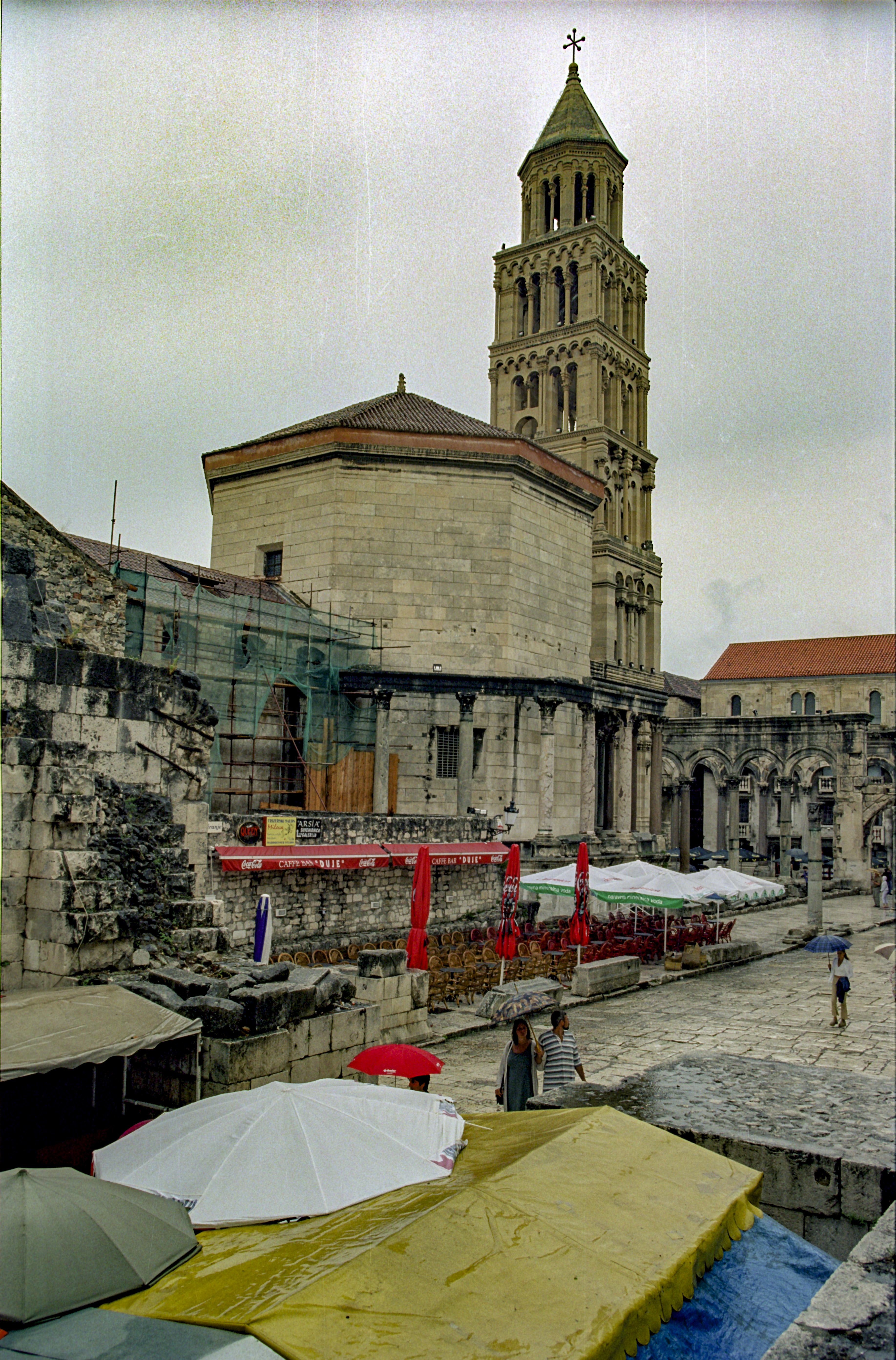 Diocletian's Palace - Diocletian's Mausoleum, now the St. Domnius cathedral of Split